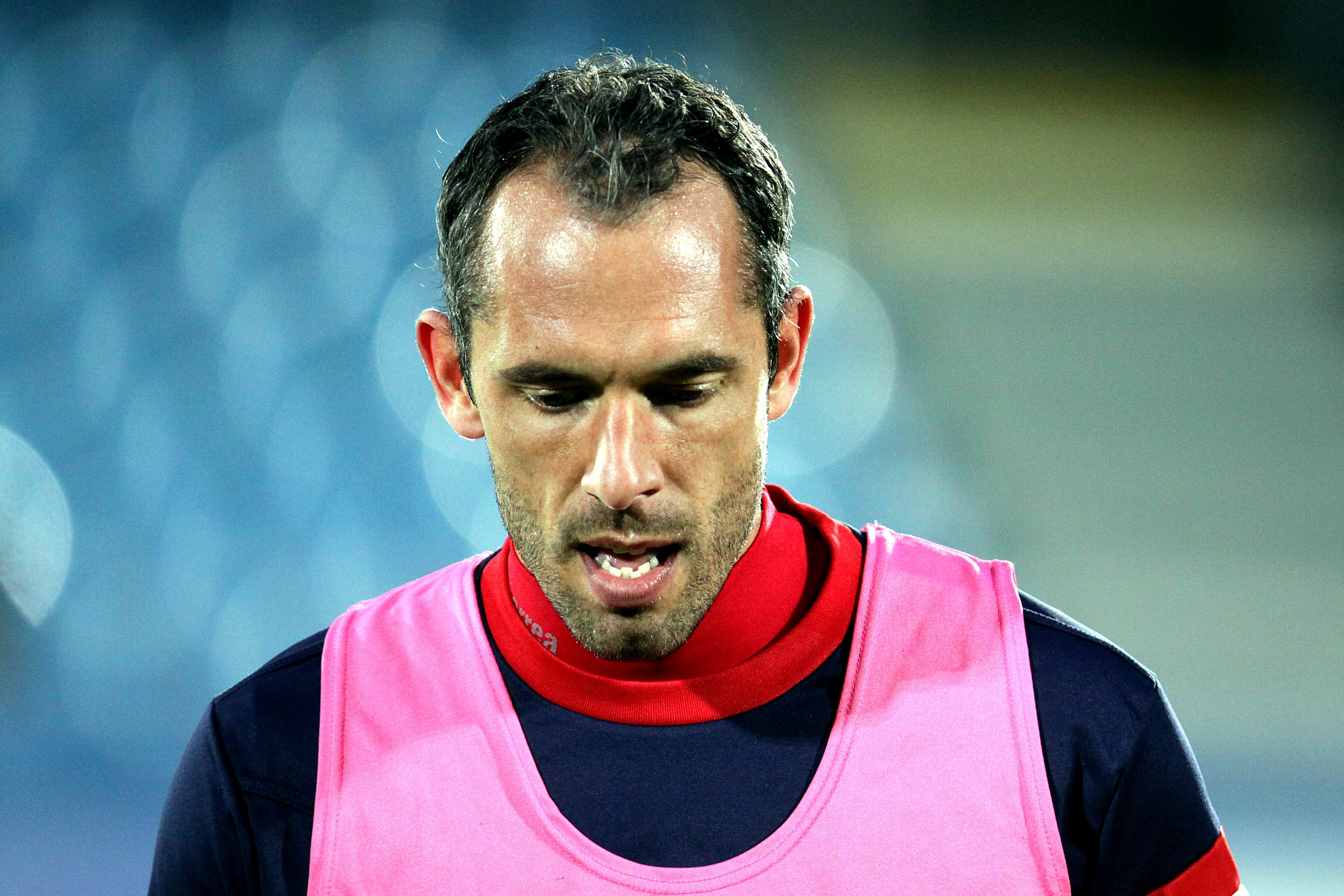 Match of the Erste Liga – SC Wiener Neustadt (blue/white shirts) vs. SK Austria Klagenfurt (red/white shirts) 1–1 (0-1) on 2015-10-20 in the Stadion in Wiener Neustadt – The photo shows Christian Prawda (SK Austria Klagenfurt).